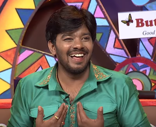 Sudigali Sudheer at ETV Sarada Sankranthi Special Event